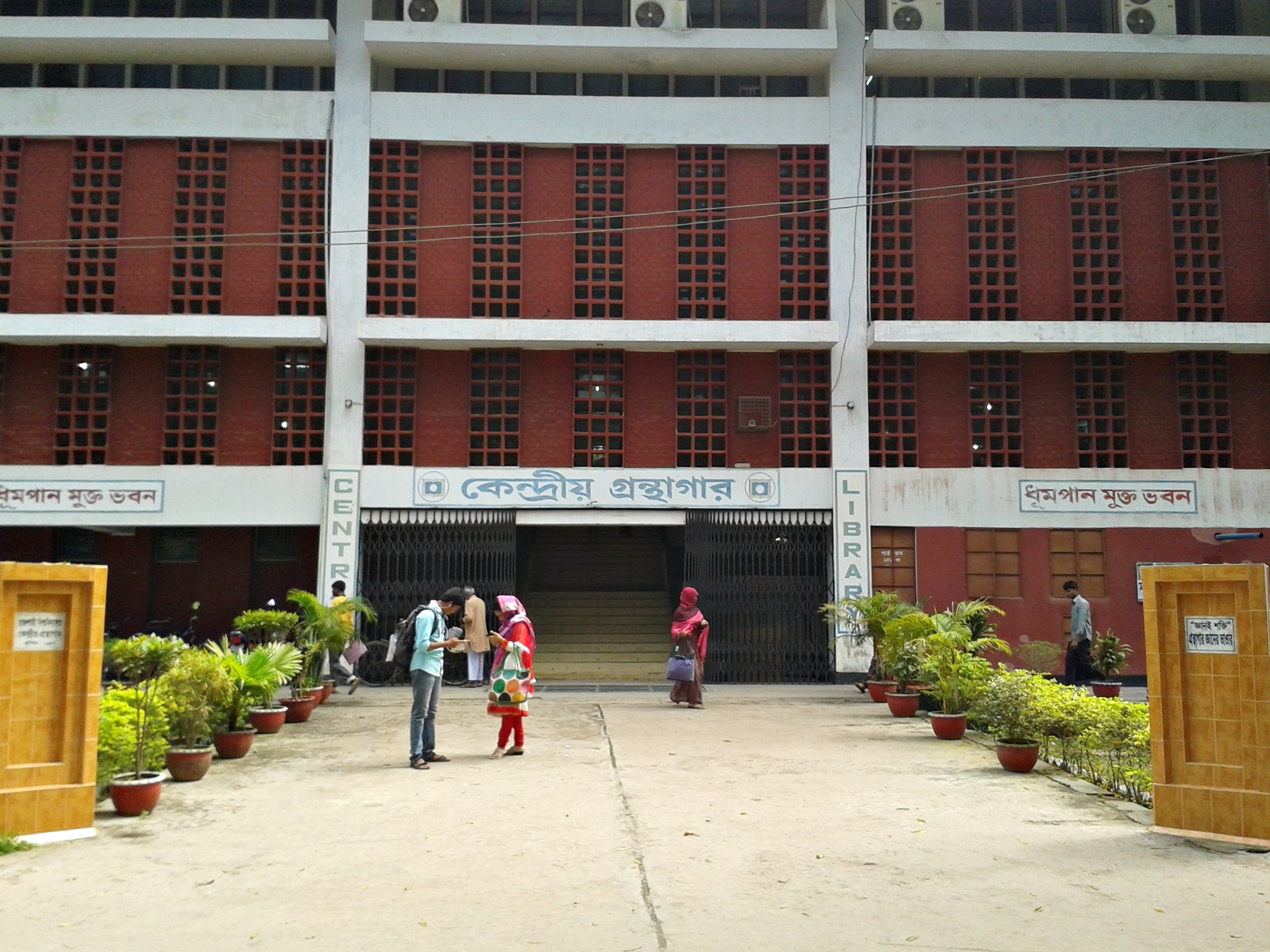 Central library, University of Rajshahi